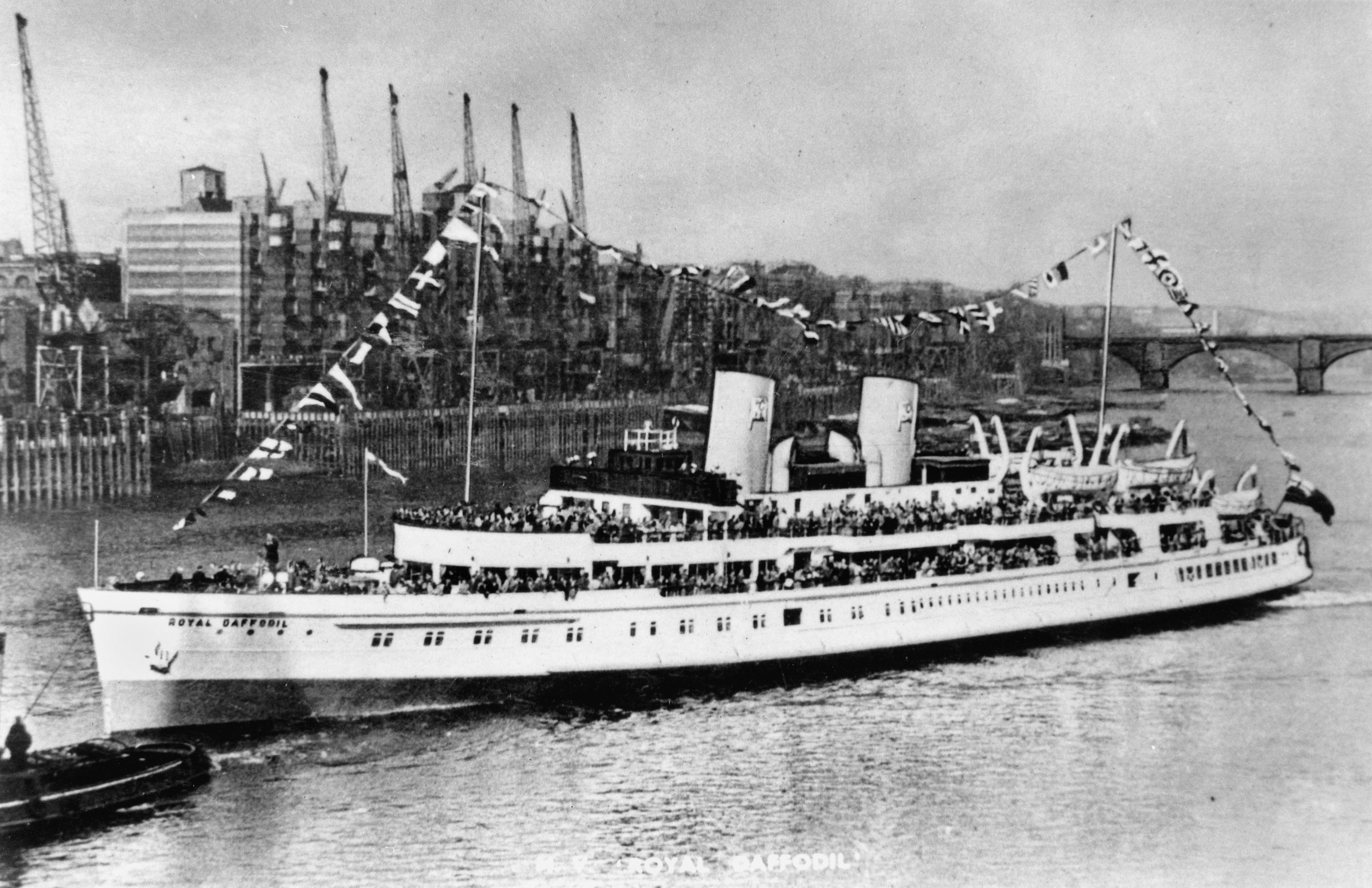 Royal Daffodil (ship) Built in 1939 measuring 2,060 gross registered tons, with a passenger capacity of 2,063 people. Diesel engines supplied a top speed of 21 knots. (Description supplied with photograph.).